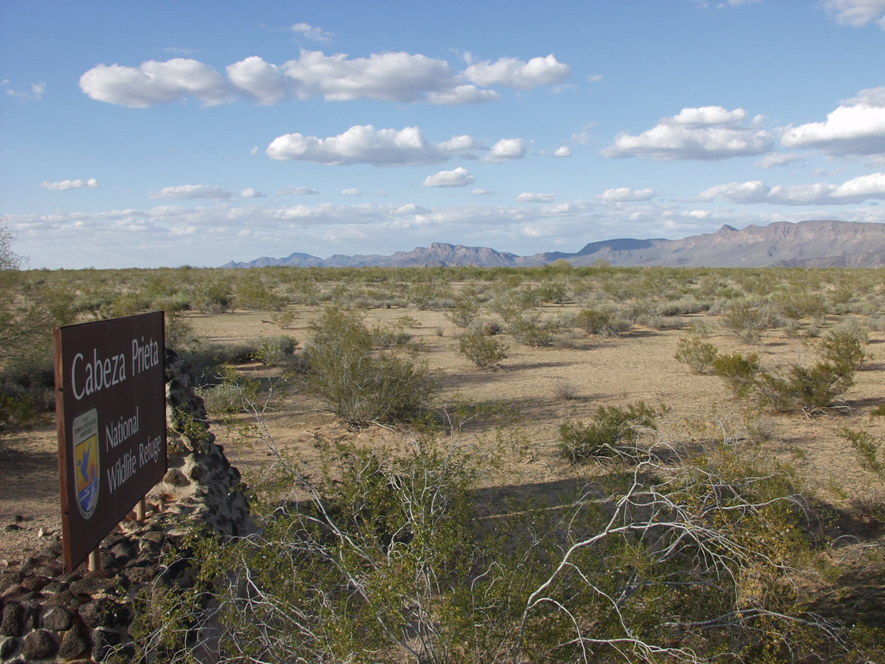 Entering the Cabeza Prieta Wildlife Refuge. El Camino del Diablo, 2004